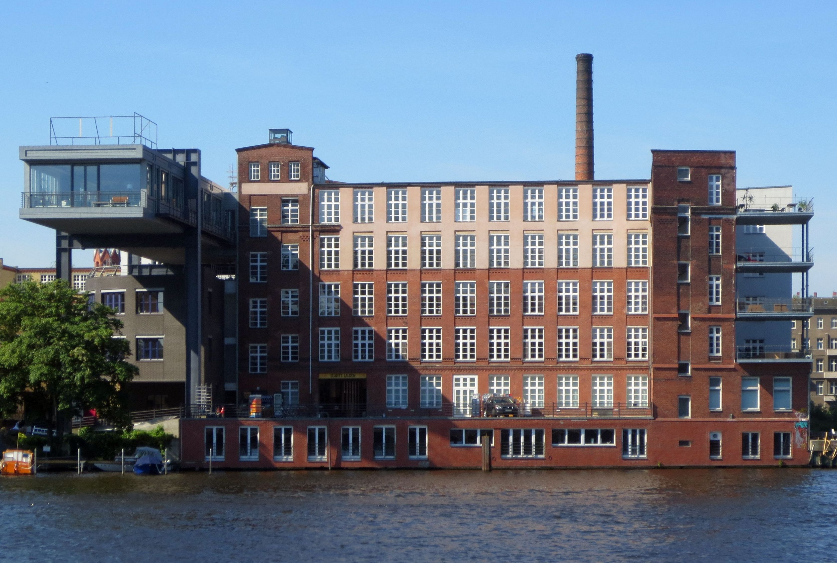 Riverside front of the Industriepalast am Schlesischen Tor at Schlesische Straße 29-30 in Berlin-Kreuzberg, here seen from Osthafen in Berlin-Friedrichshain; The small businesses park with several courts was built from 1907 to 1908 by the construction company Boswau & Knauer, together with a residential building on Schlesische Straße. The complex has been designated as a cultural heritage monument.